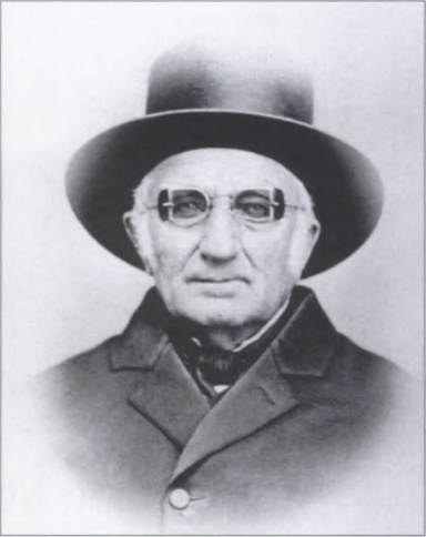 Captain John Bautista Rogers Cooper was a Yankee who converted to Catholicism and married the daughter of the Spanish governor of California.